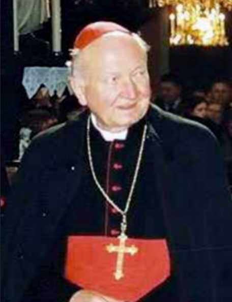 Marian Jaworski, Roman Catholic cardinal (one of two Vatican cardinals from Ukraine) Author of photograph: Anna Gordijewska Source URL